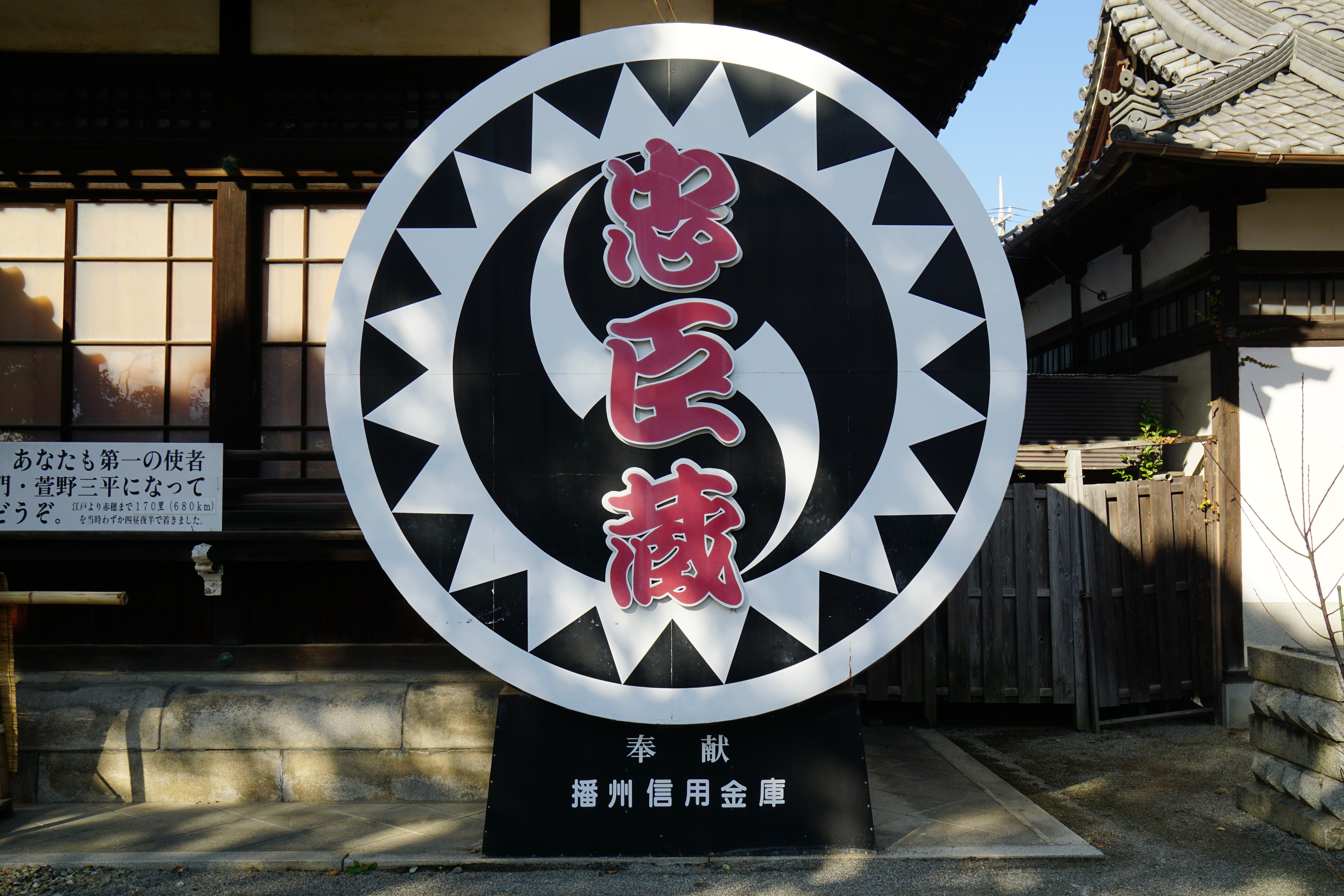 Ako-Oishi-jinja in Ako, Hyogo prefecture, Japan.